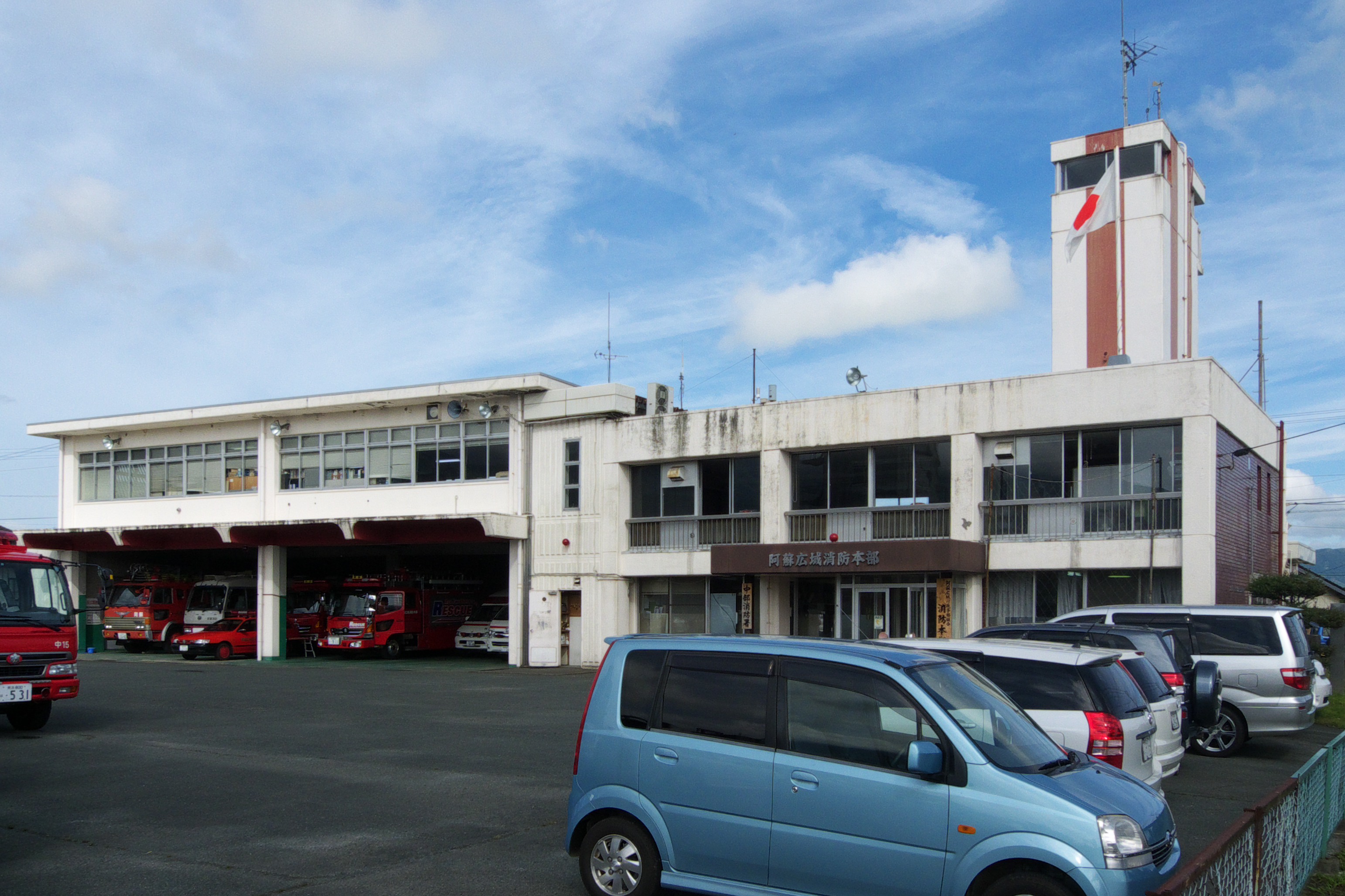 Aso Fire Department Headquarters/Chubu Fire Station in Aso City, Kumamoto Prefecture, Japan